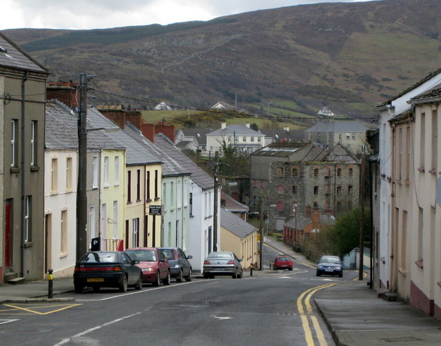 Millbrae, Buncrana Street south of the main town centre in Buncrana.